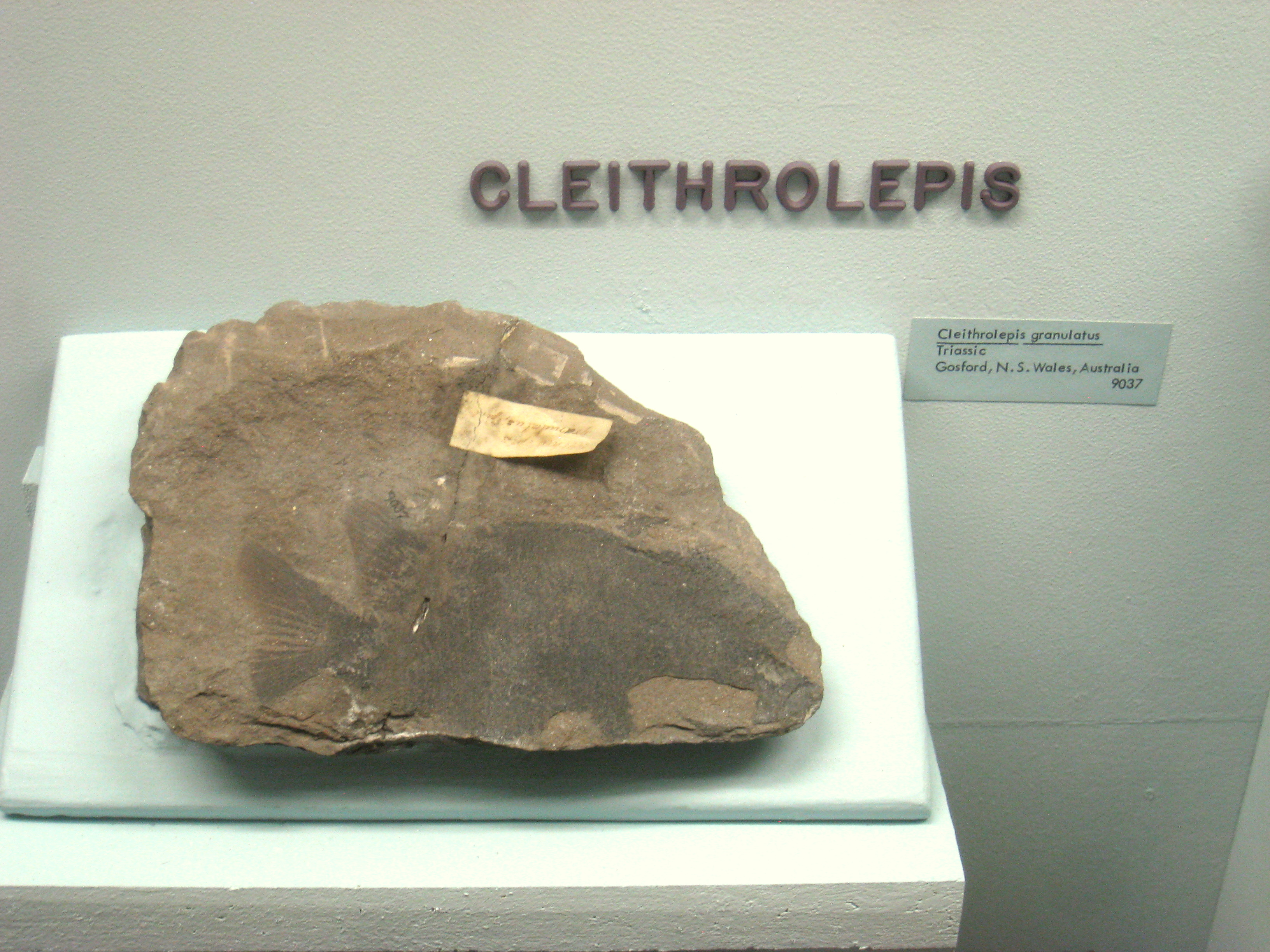 Cleithrolepis granulatus. Exhibit Museum of Natural History, University of Michigan, 1109 Geddes Avenue, Ann Arbor, Michigan, USA.